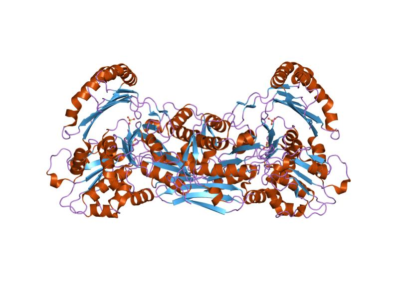 Cartoon representation of the molecular structure of protein registered with 1kfi code.